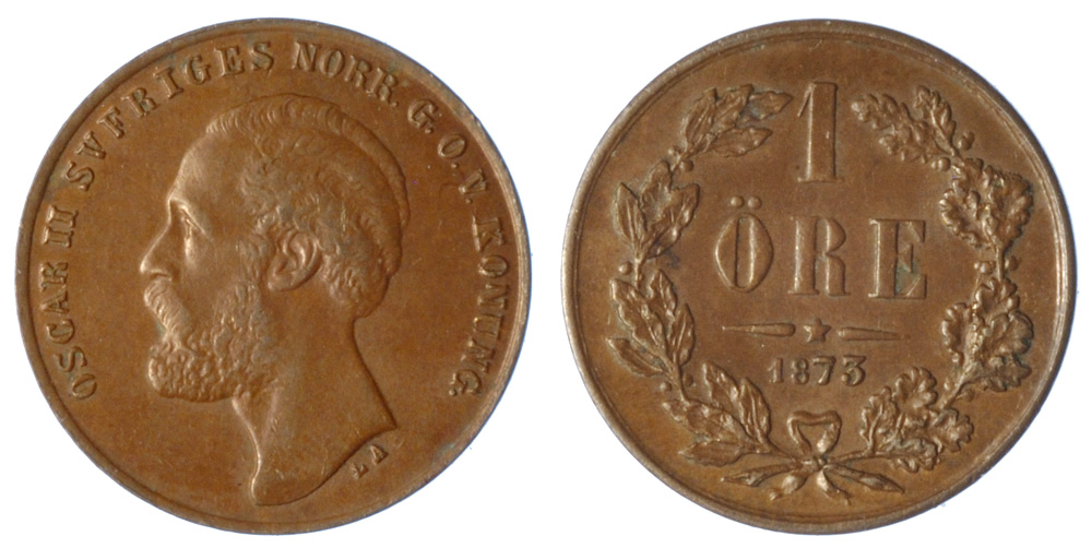 1 Öre, a Swedish coin. Scan by my brother, from his collection.